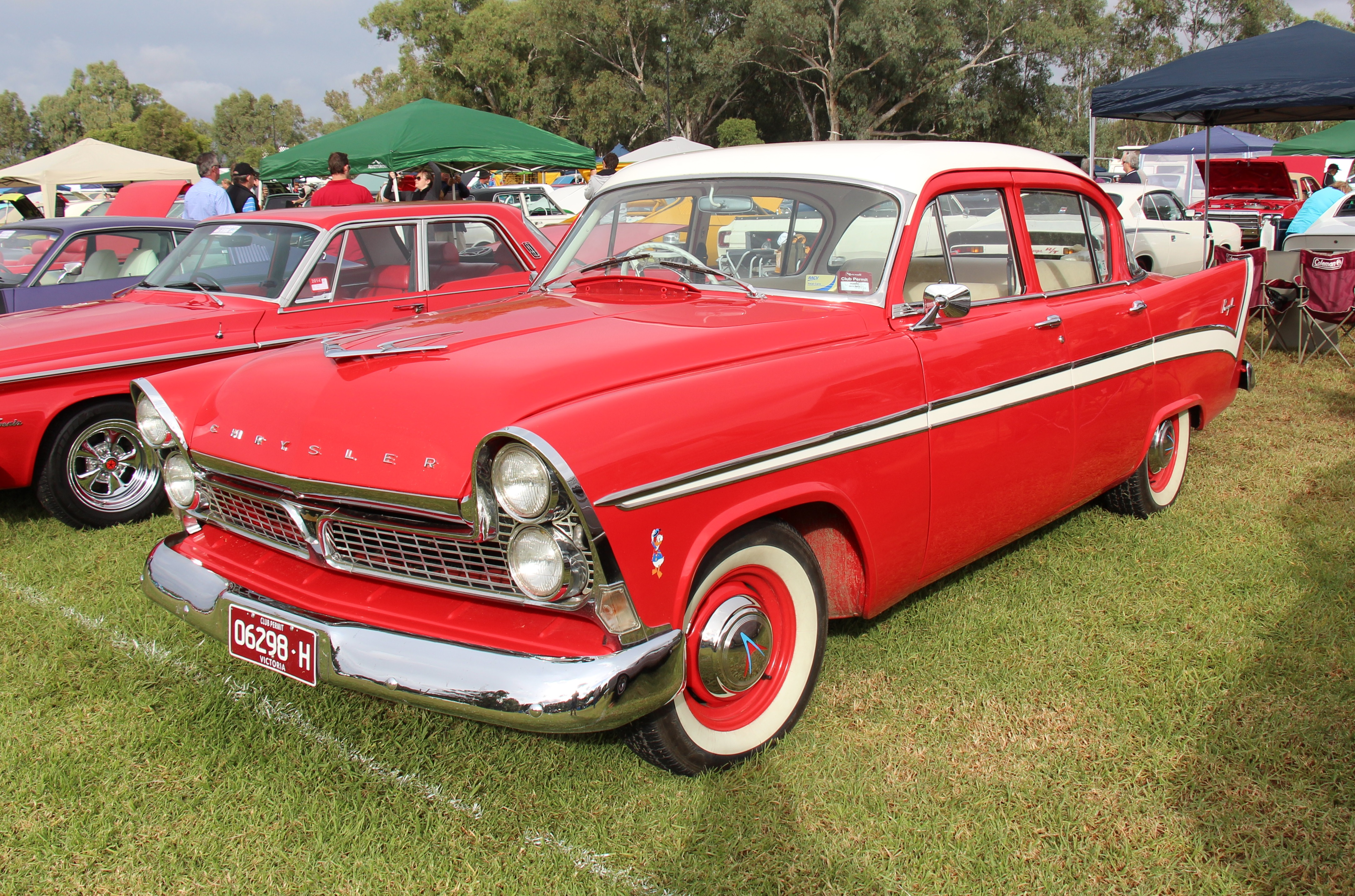 The Chrysler Royal is an automobile which was produced in Australia by Chrysler Australia from 1957 to 1963. Using the doors and basic structure of the 1953 Plymouth Cranbrook, locally designed front sheetmetal and rear quarters, similar to the 1956 Plymouth were adapted. Available in Sedan, Plainsman Wagon and Wayfarer Utility. The update in 1958, the AP2 got a new grille and taller tail fins. AP1- 1957, AP2-1958, AP-3 1960 (AP- Australian Plymouth) Engine; 230 or 250 cu in 6 cyl and 313 cu in V8 (the V8 used by the Highway Patrol)